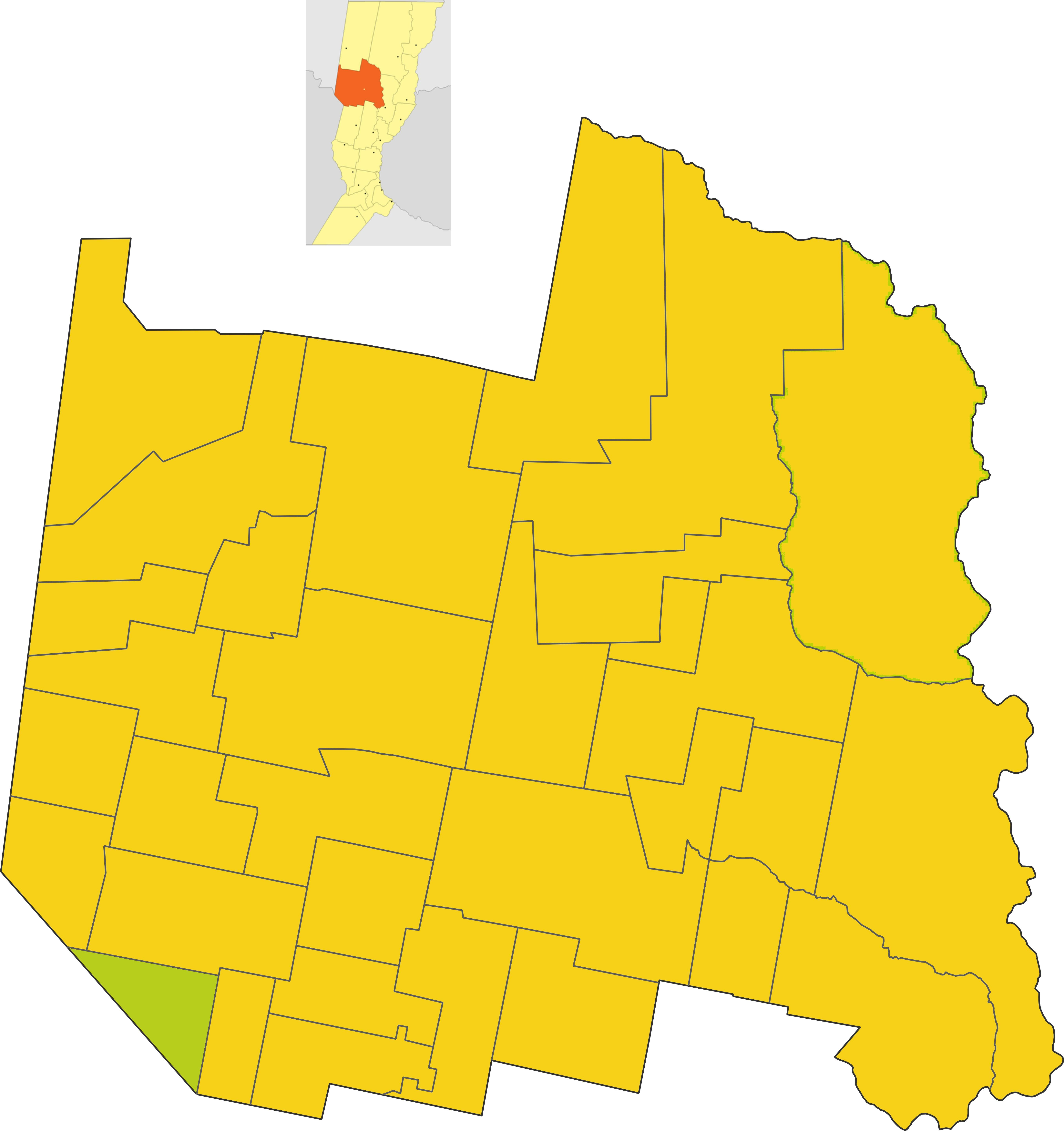 Map of the municipio of Colonia Dos Rosas y La Legua in San Cristobal department, Santa Fe province, Argentina